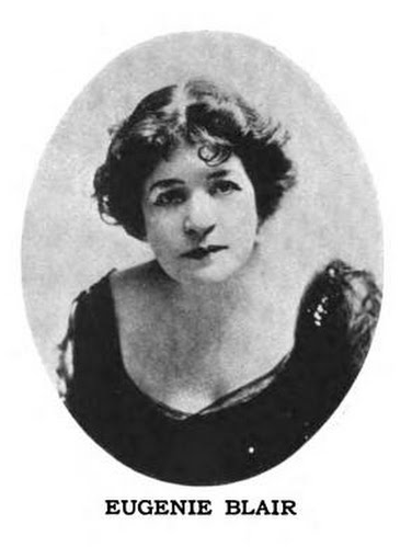 Eugenia Blair, from a 1916 publication.